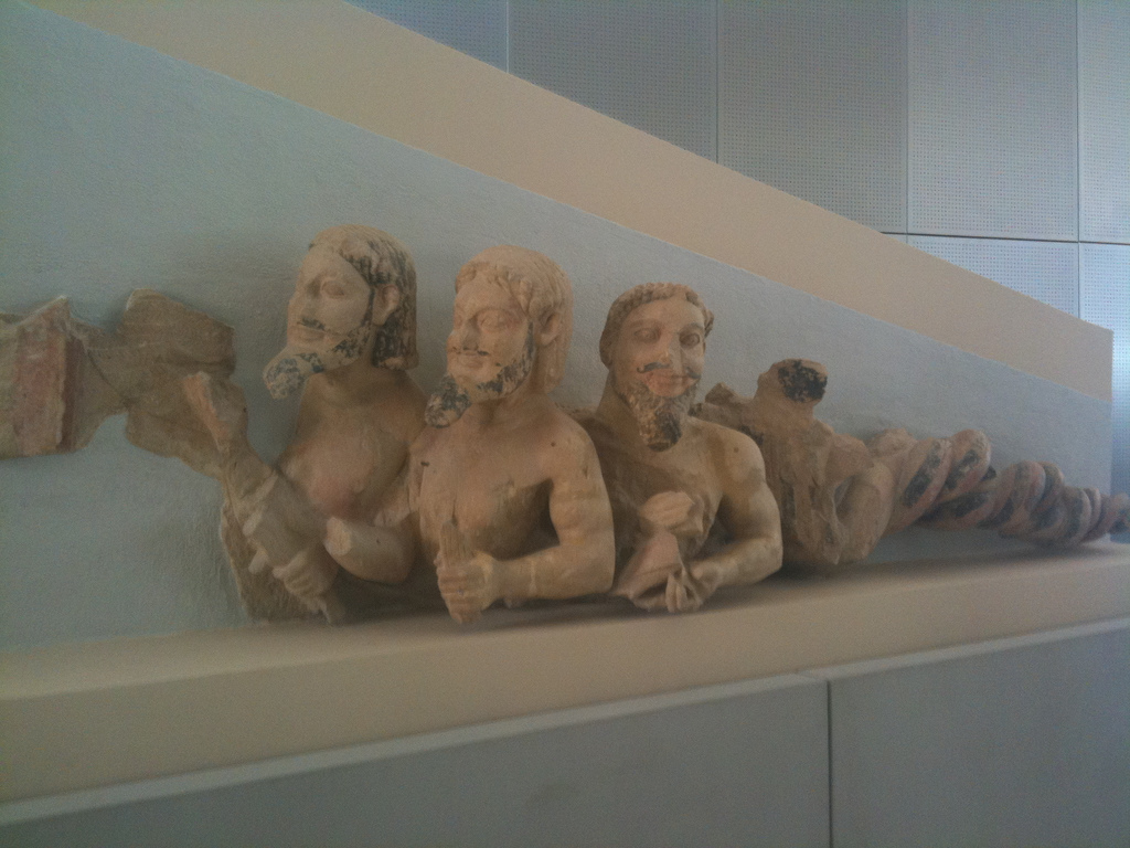 Triple-Bodied Monster on the west pediment of the Old Temple of Athena. It's about a creature composed of three male figures joined at the waist. The first figure holds in its left hand water, the second fire, and the third a bird (symbolizing air). The monster ends in a body with shape of serpent. West pediment of the Old Temple of Athena or perhaps of the Hekatompedon. Lenormant fragment.